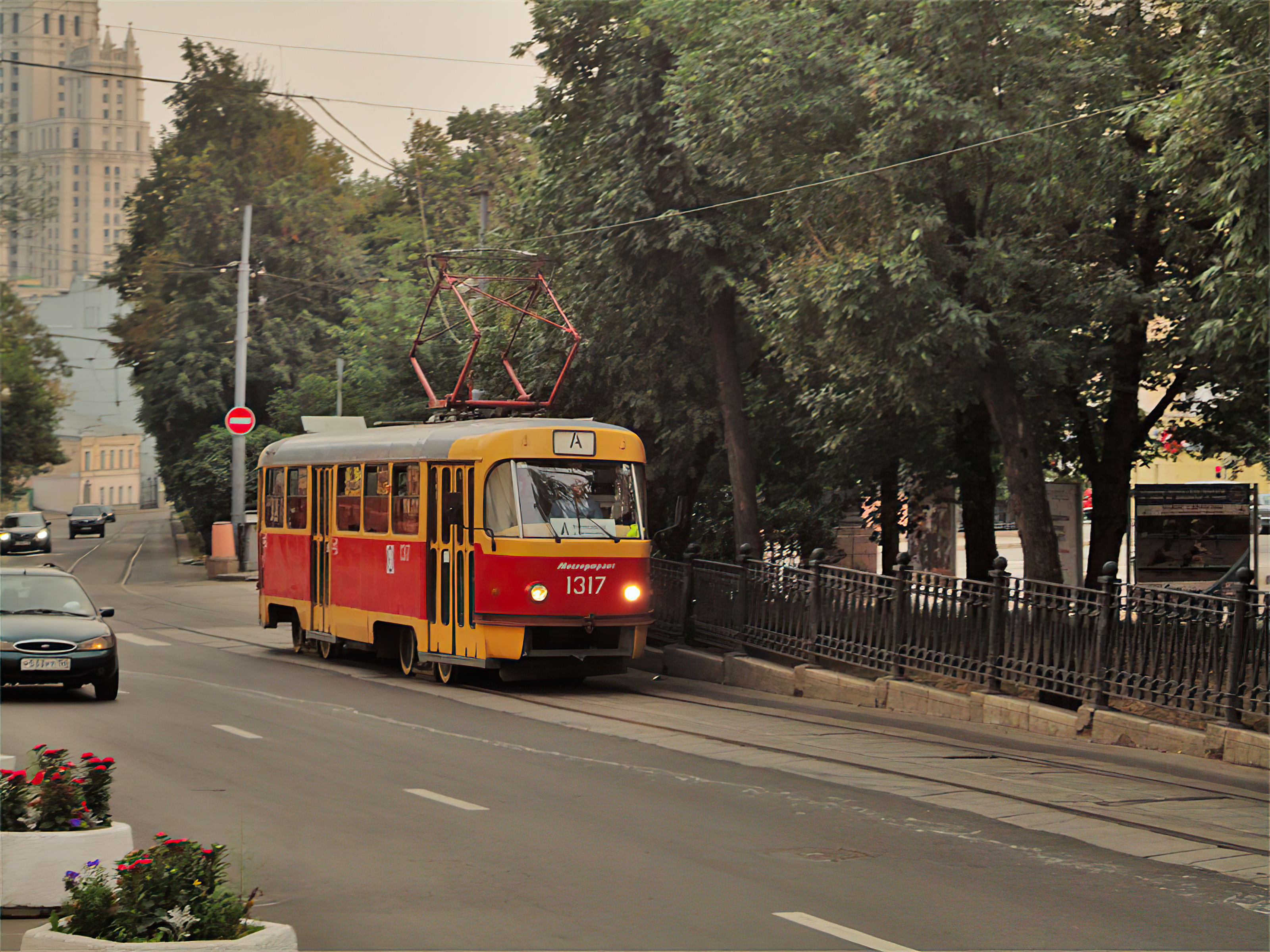 Modernised Tatra T3 tram in Moscow